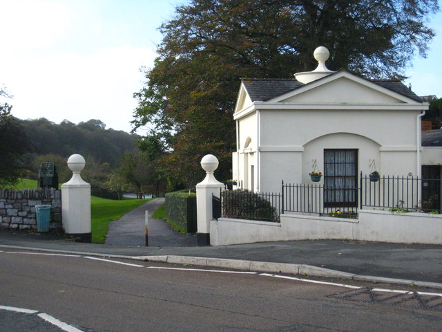 The gatehouse at Radford Park This was a gatehouse to Radford House, for many generations a seat of the Harris family, dating mainly from the late 16th c. and demolished in 1937